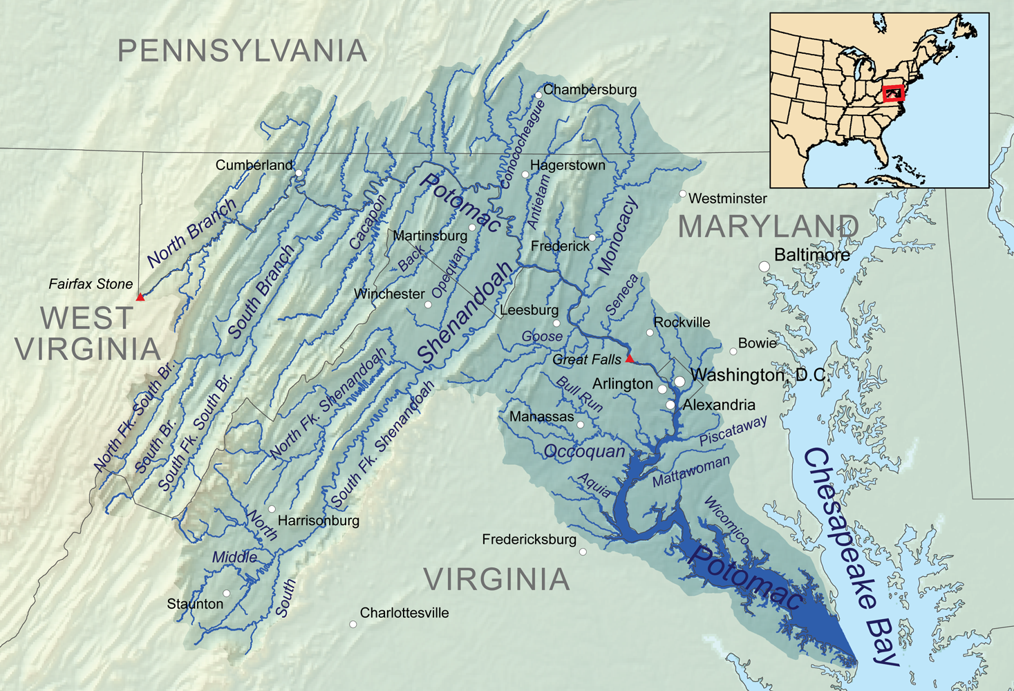 Map showing the Potomac River drainage basin.